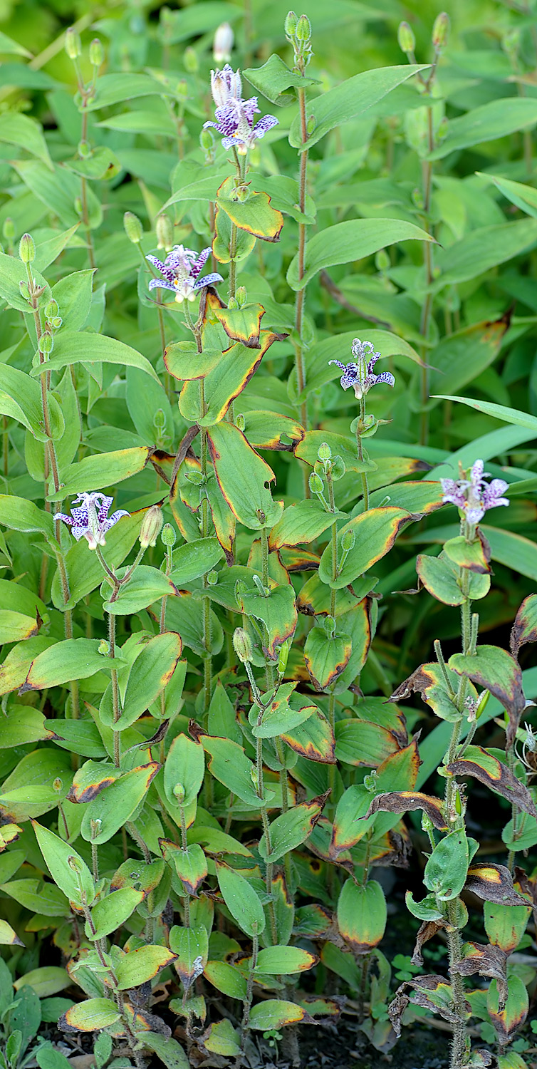 This image shows a Hairy Toad Lily (Tricyrtis hirta).